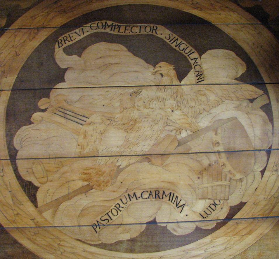 Marquetry of the Bureau du Roi (King's Desk) or Louis XV's roll-top secretary in the Palace of Versailles. brevi complector singula cantu - pastorum carmina ludo. From Cesare Ripa (1555-1622) in Iconologia, could be translated as "I embrace unique things in a short song" - "I play shepherds' songs".